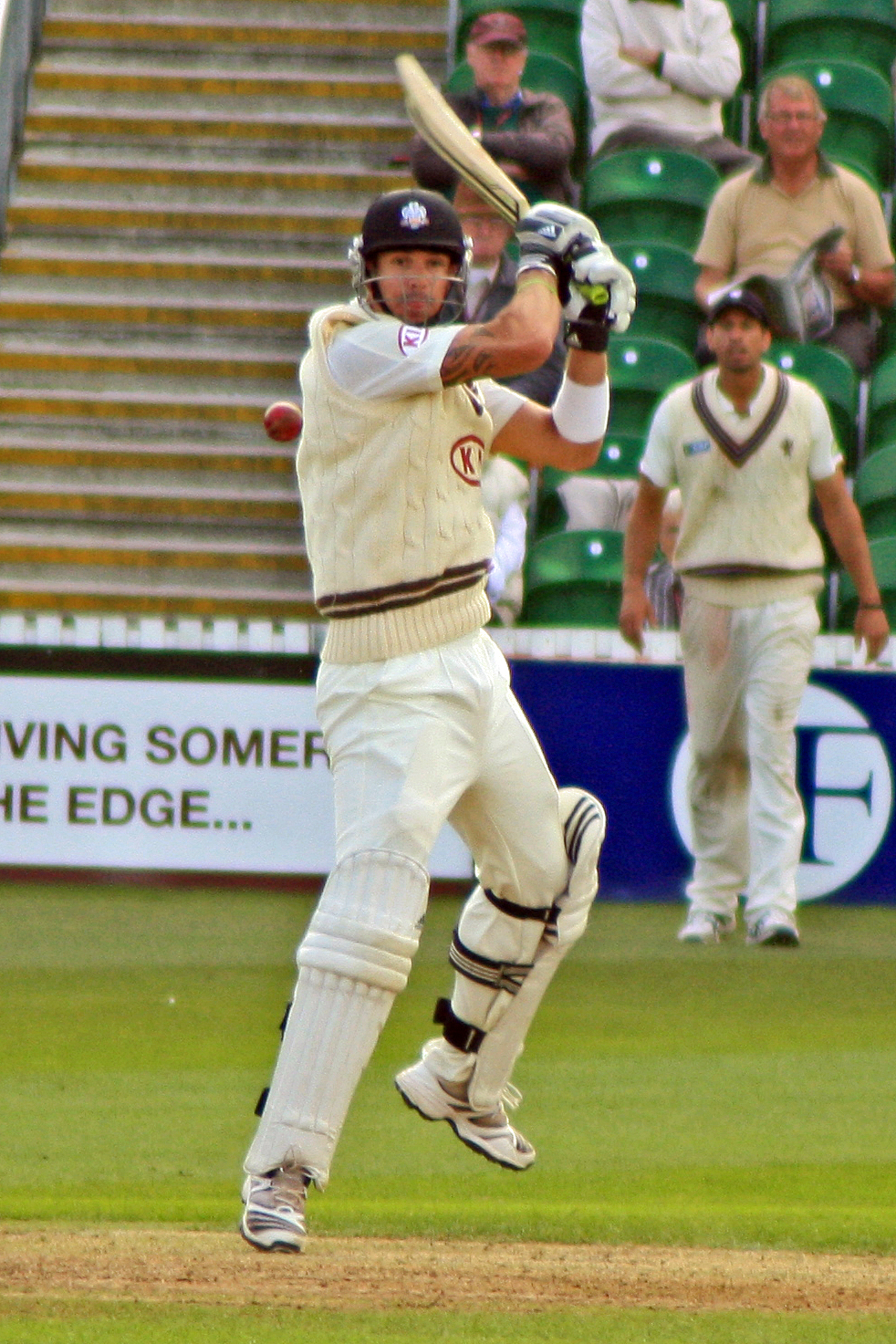 Kevin Pietersen batting for Surrey against Somerset at the County Ground, Taunton. The match took place during the ODI series between England and South Africa, which Pietersen did not participate in due to his retirement from ODI cricket, followed by his non-selection due to rifts within the England dressing room.